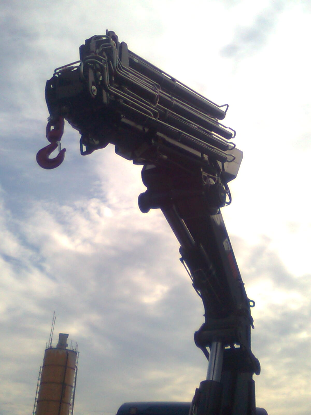 The HIAB XS 700 HIPRO truck mounted crane